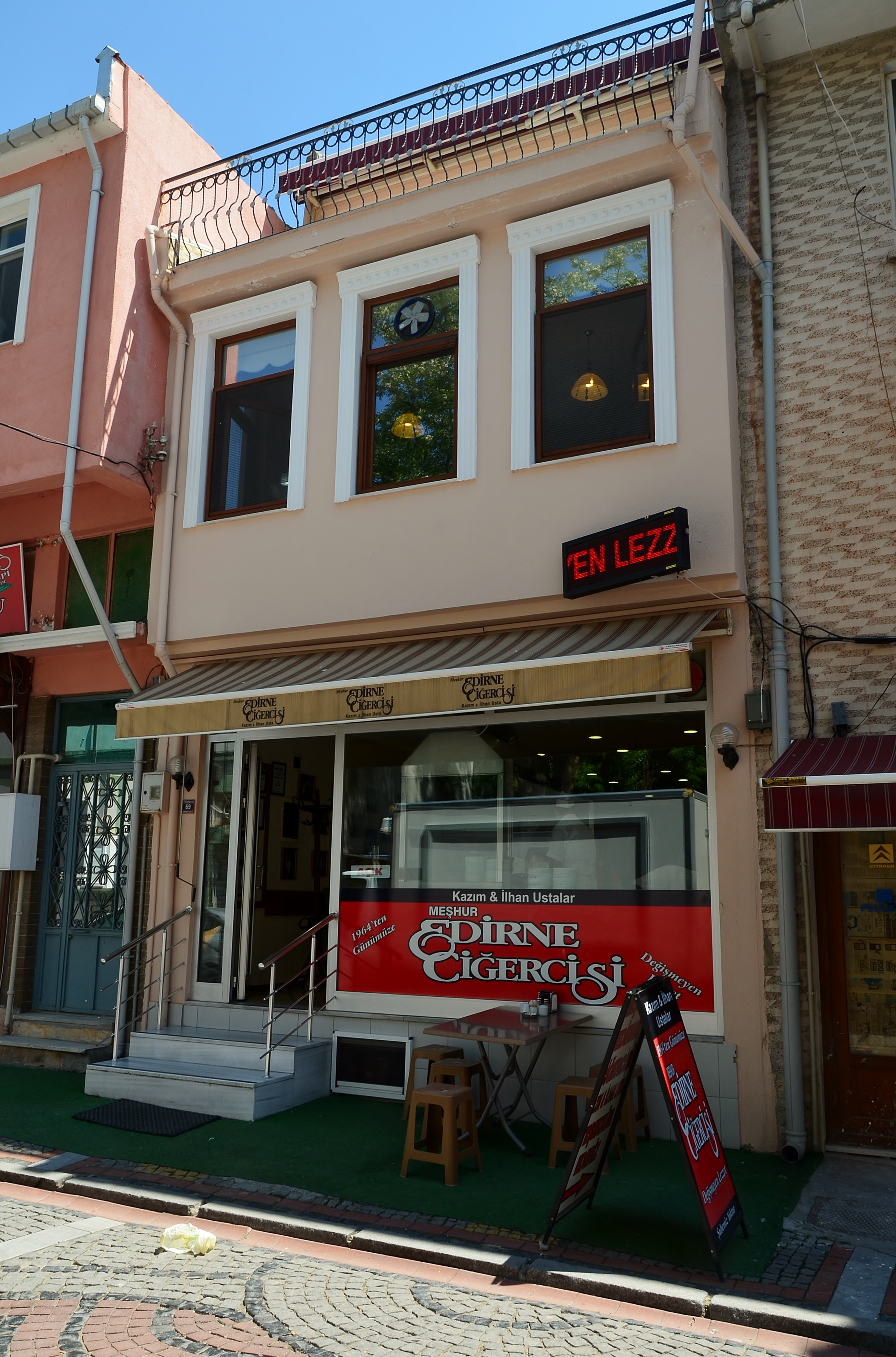 Ciğerci, a local speciality food restaurant in Edirne, Turkey